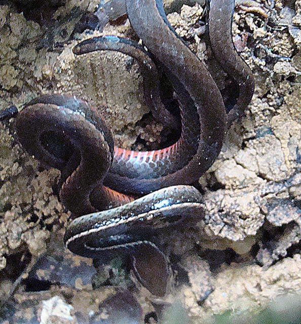 Distinguished by a reddish underside. At night in the San Blas Range, Panama. In context at